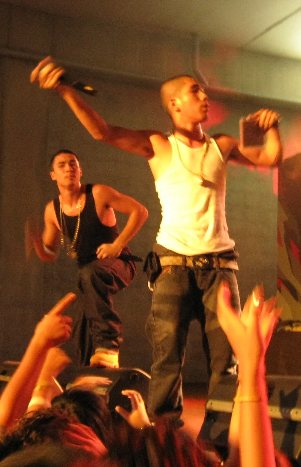 Southside on stage at Asian Hip Hop Festival.